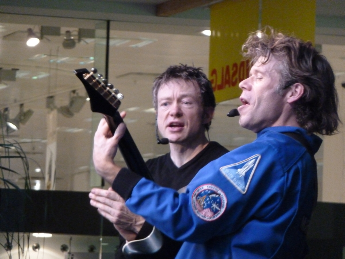 'Martin og Ketil' - Martin Keller and Ketil Teisen at Rødovre Centret feb. 2011